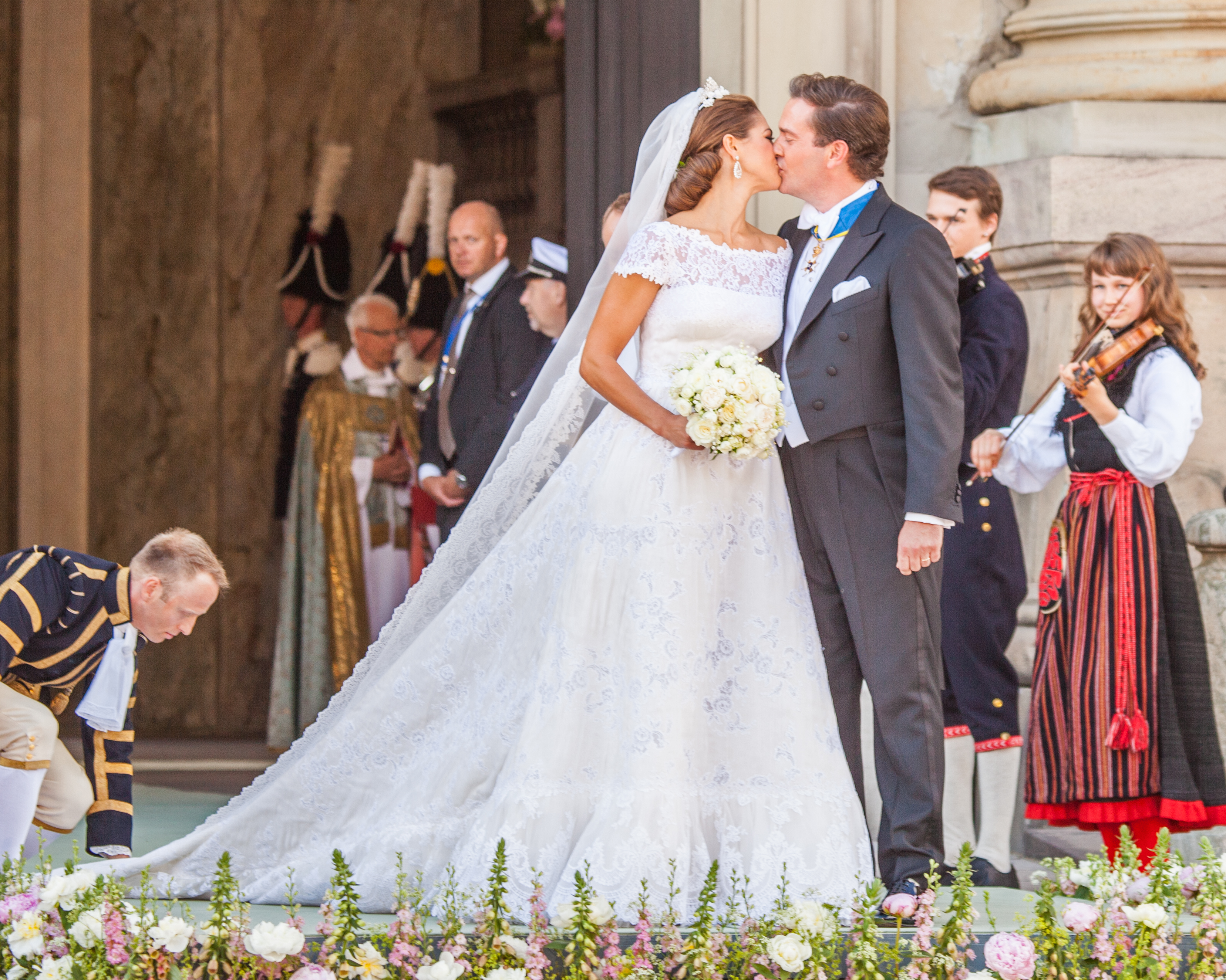 Princess Madeleine of Sweden and Christopher O´Neill wedding June 2013